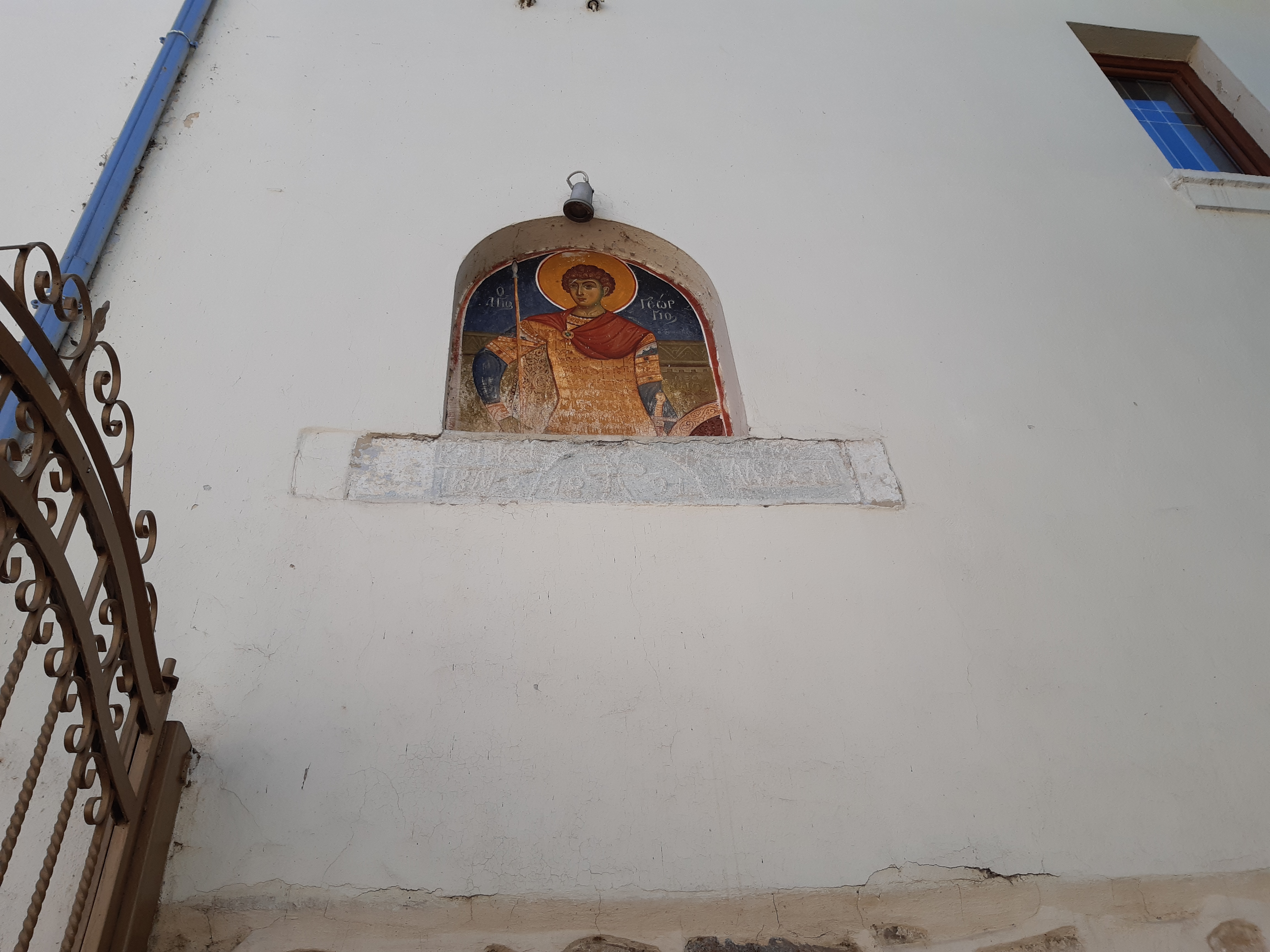 Saint George Church, Kastoria